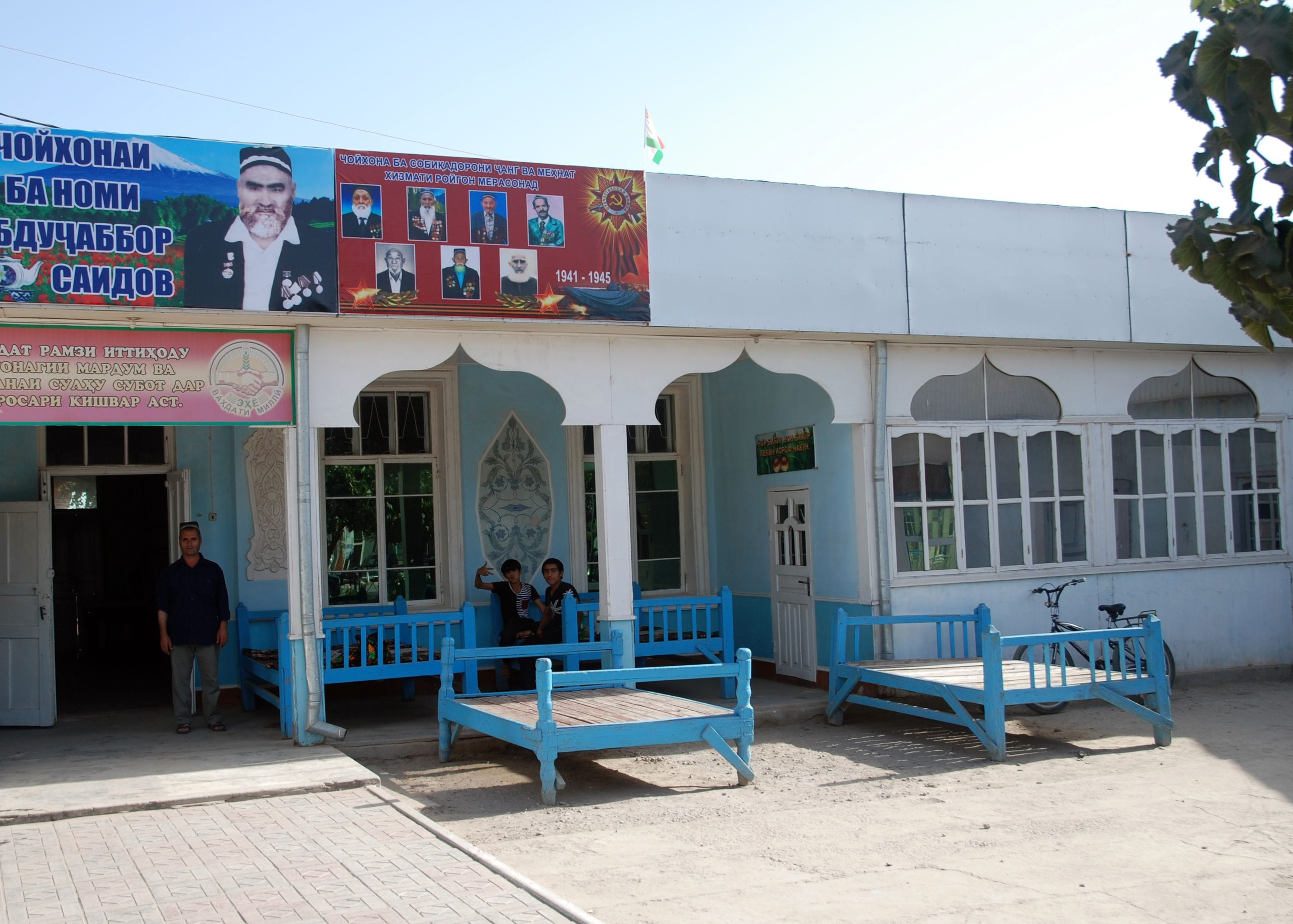 Tapchans in front of a restaurant in Shaartuz, Tajikistan